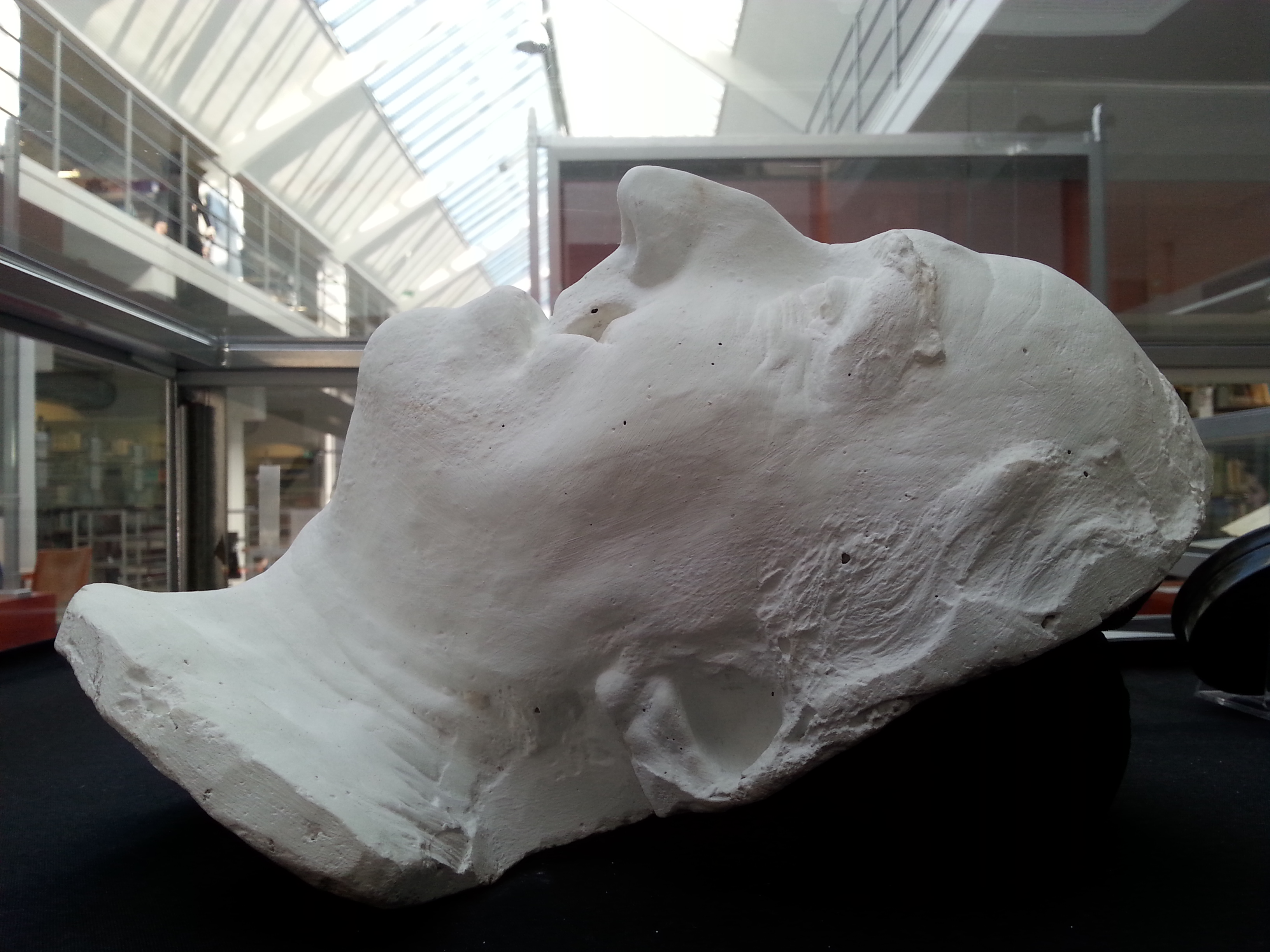 Death mask of the writer August von Kotzebue, exhibited on the occasion of his 200th death day in the library branch A3 of Mannheim University, Kurpfälzisches Museum der Stadt Heidelberg, Heidelberg